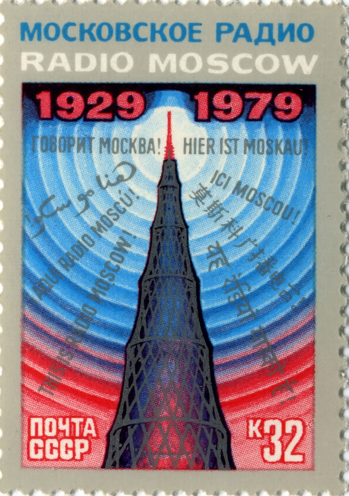 32 kopeks postage stamp, USSR 1979, 50 years Radio Moscow